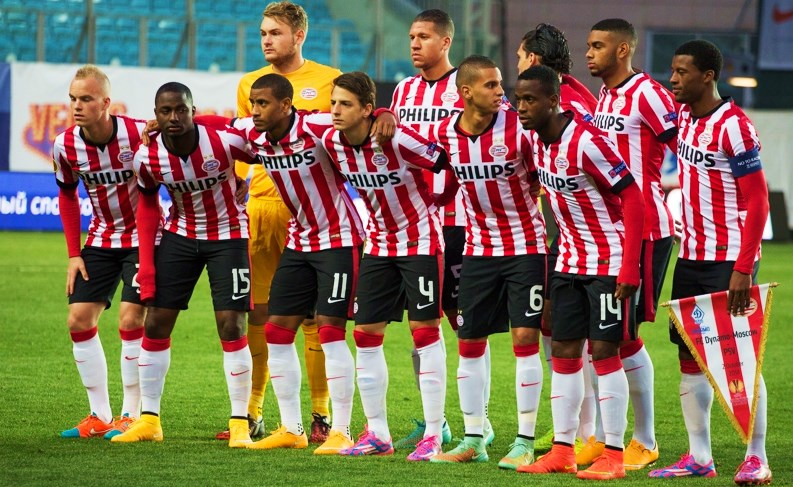 Philips Sport Vereniging